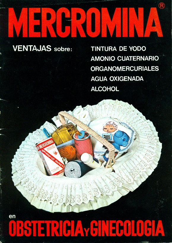 Comercial brochure for Mercromina use in ginecology